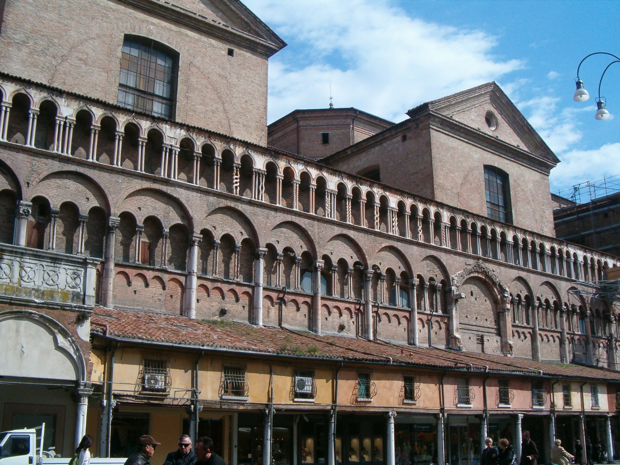 Ferrara, Italy Side view of the Cathedral